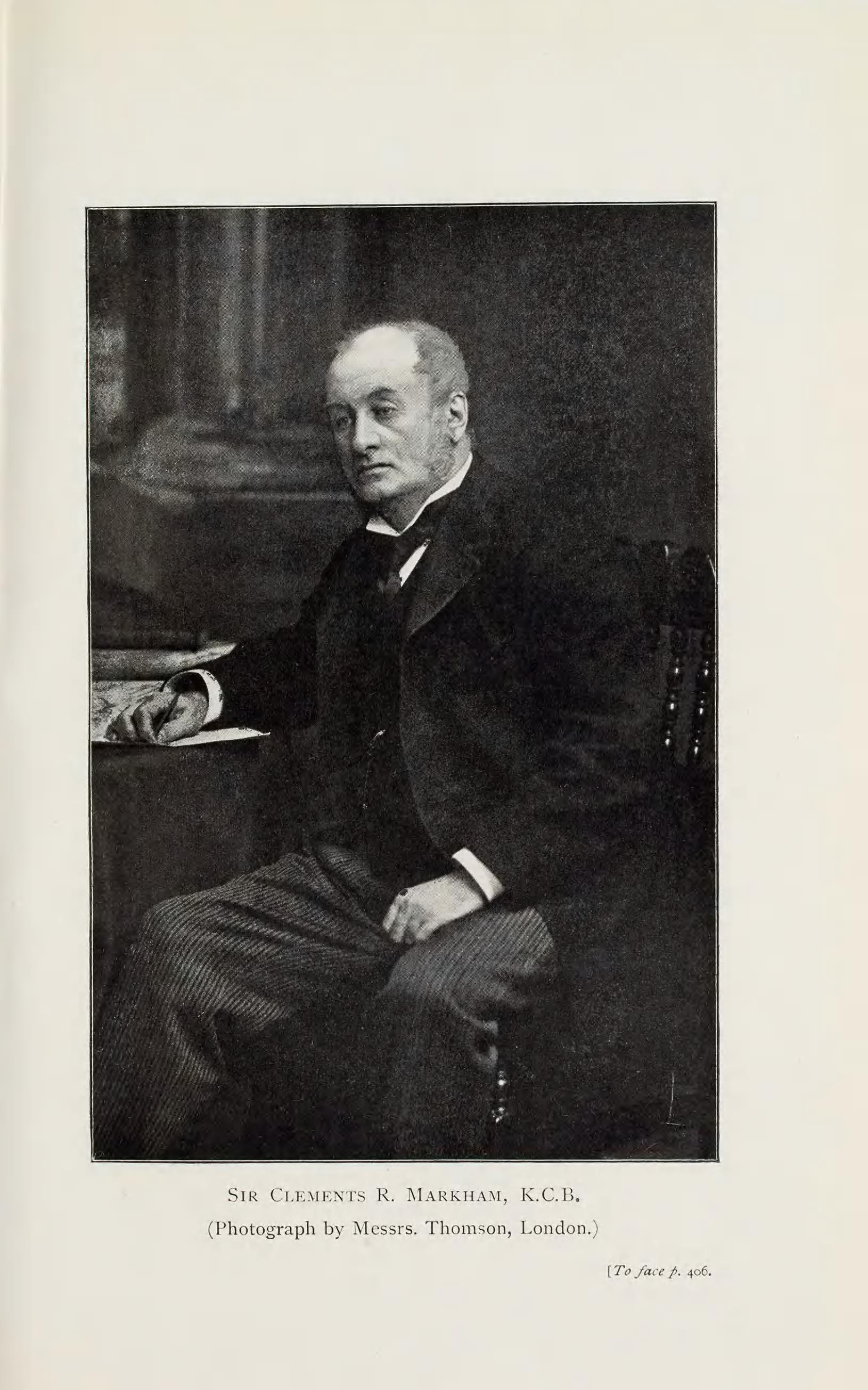 The siege of the South pole; the story of Antarctic exploration /